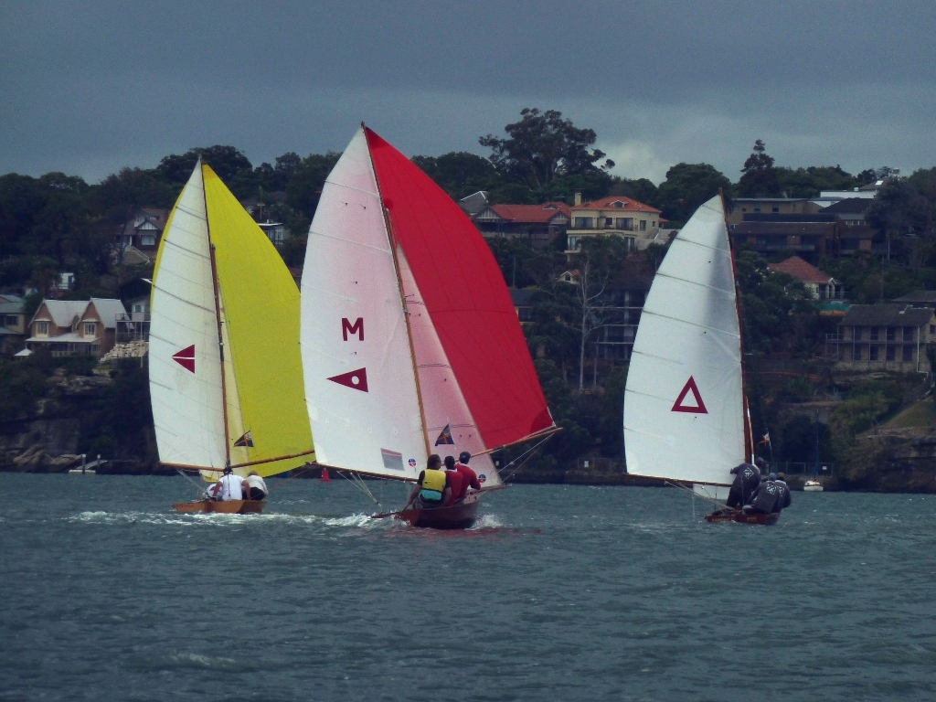 3 skiffs take off on a kite run